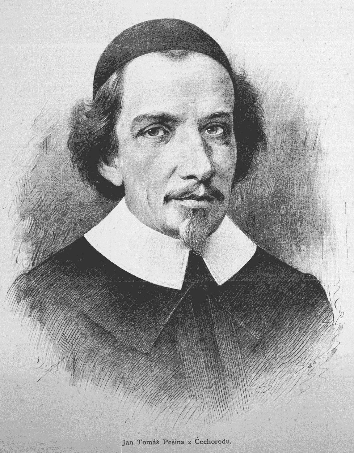 Portrait of Tomáš Pešina z Čechorodu, Czech middle-age writer.